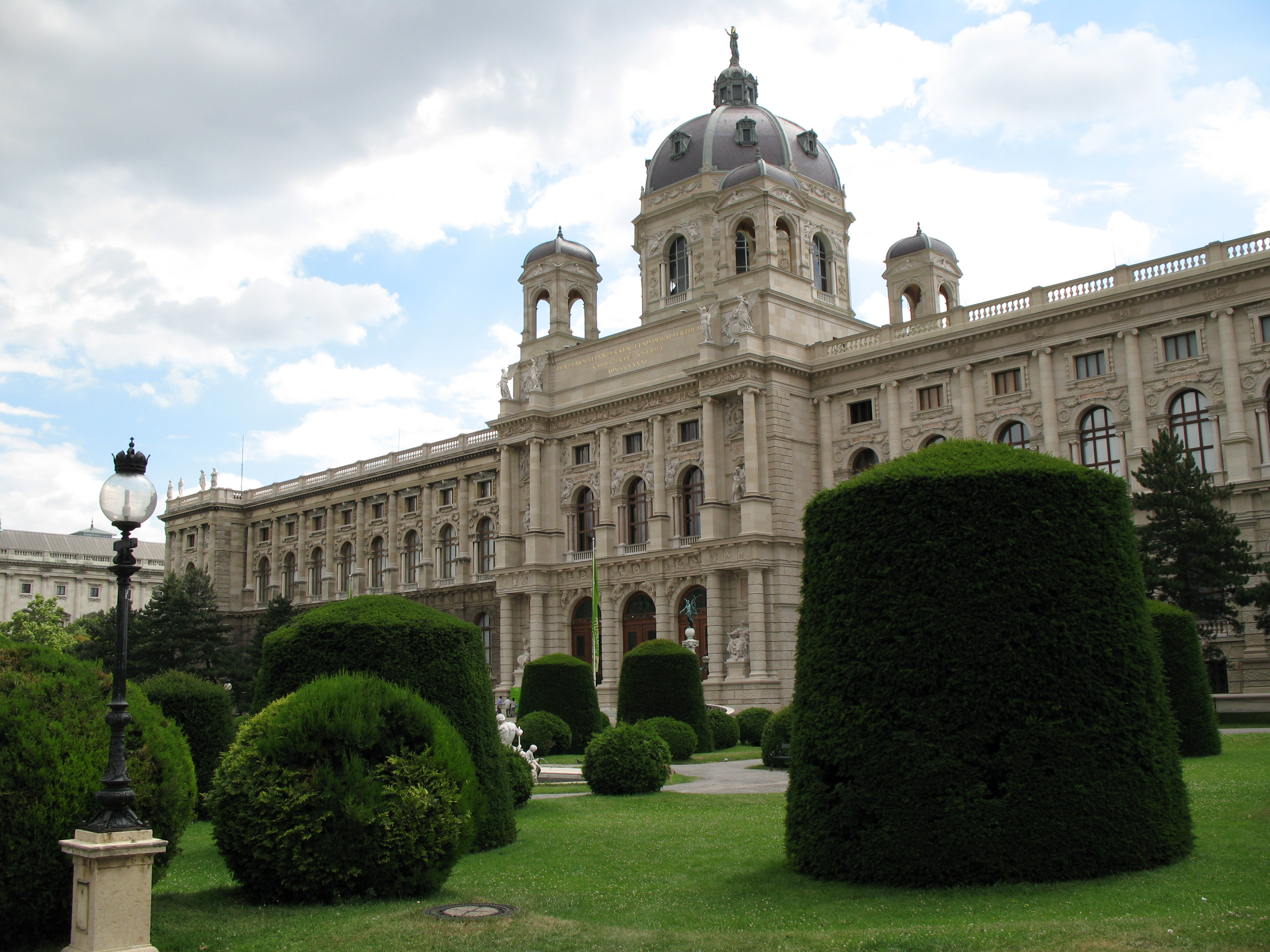 Austria, Vienna, Kunsthistorisches Museum